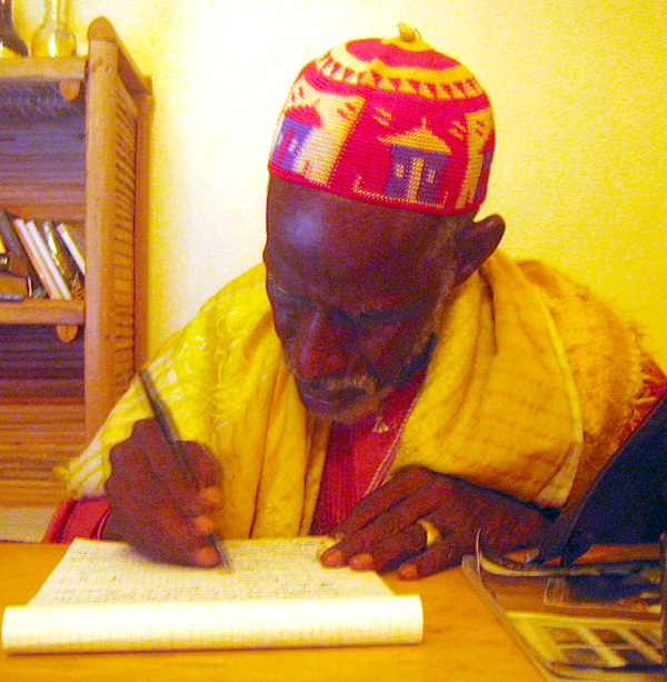 Aliu Amadu Jallo and his manuscripts for the Fulfulde Wikipedia. Note that this is at the Geekcorps (see also de) Mali HQ's living room, and that the bottles of alcohol in the background are not his. He's actually working on Ndimaagu. another, better Version: Bild:Aliu Amadu Jallo-schmaus.jpg